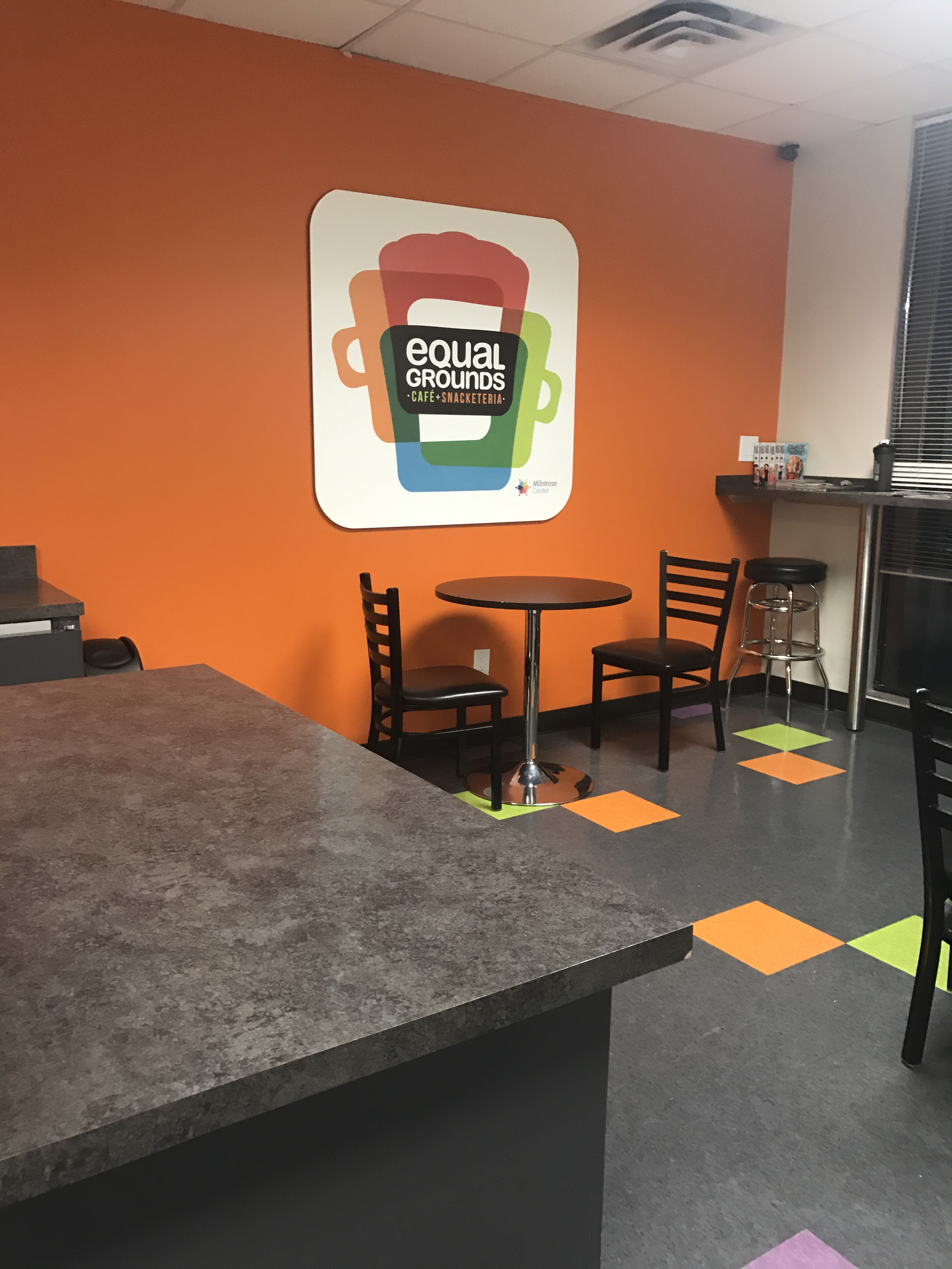 A picture of Equal Grounds café in the Montrose Center in Houston, Texas